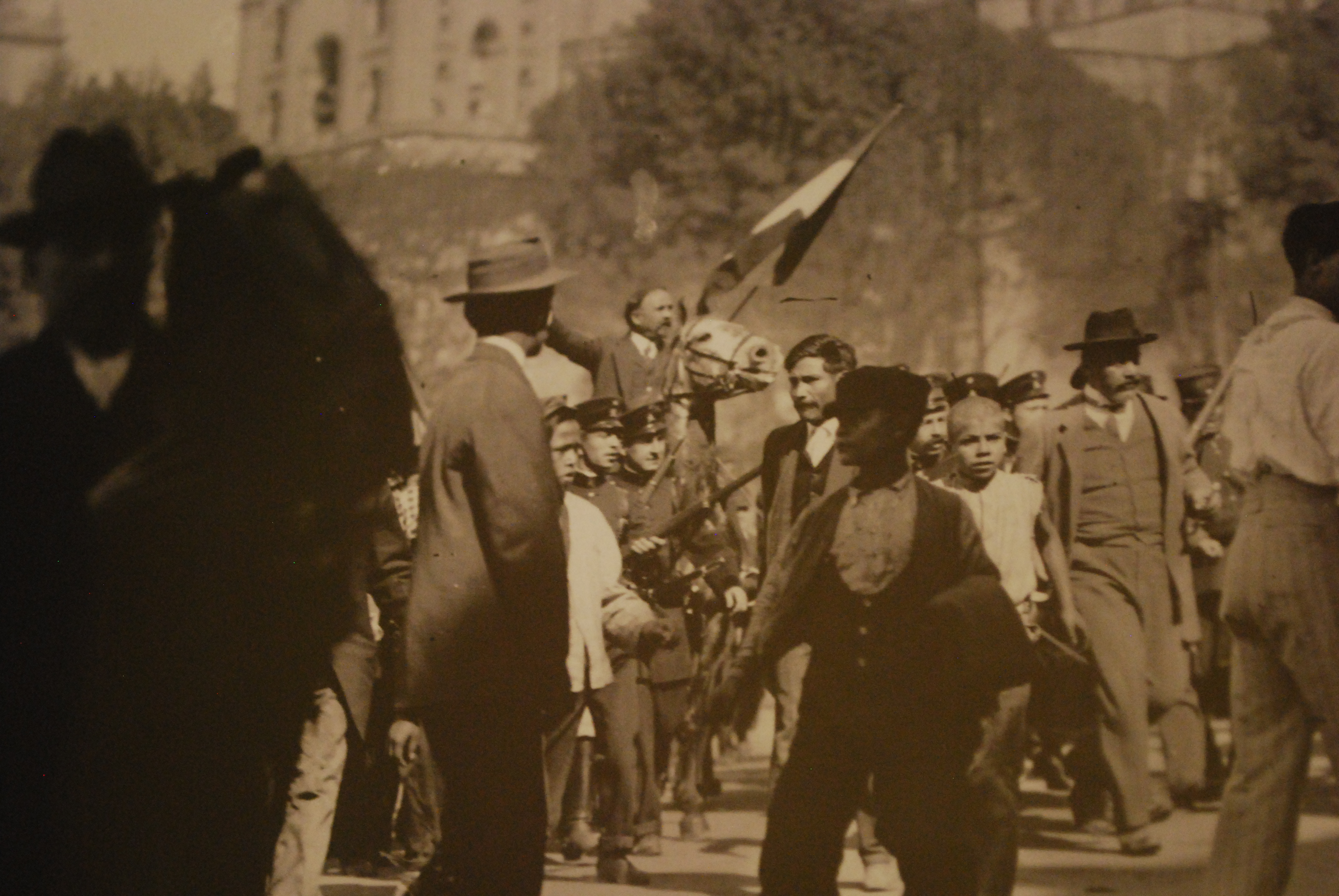 Francisco I Madero arriving on the first day of the Decena Tragica February 1913 author unknown